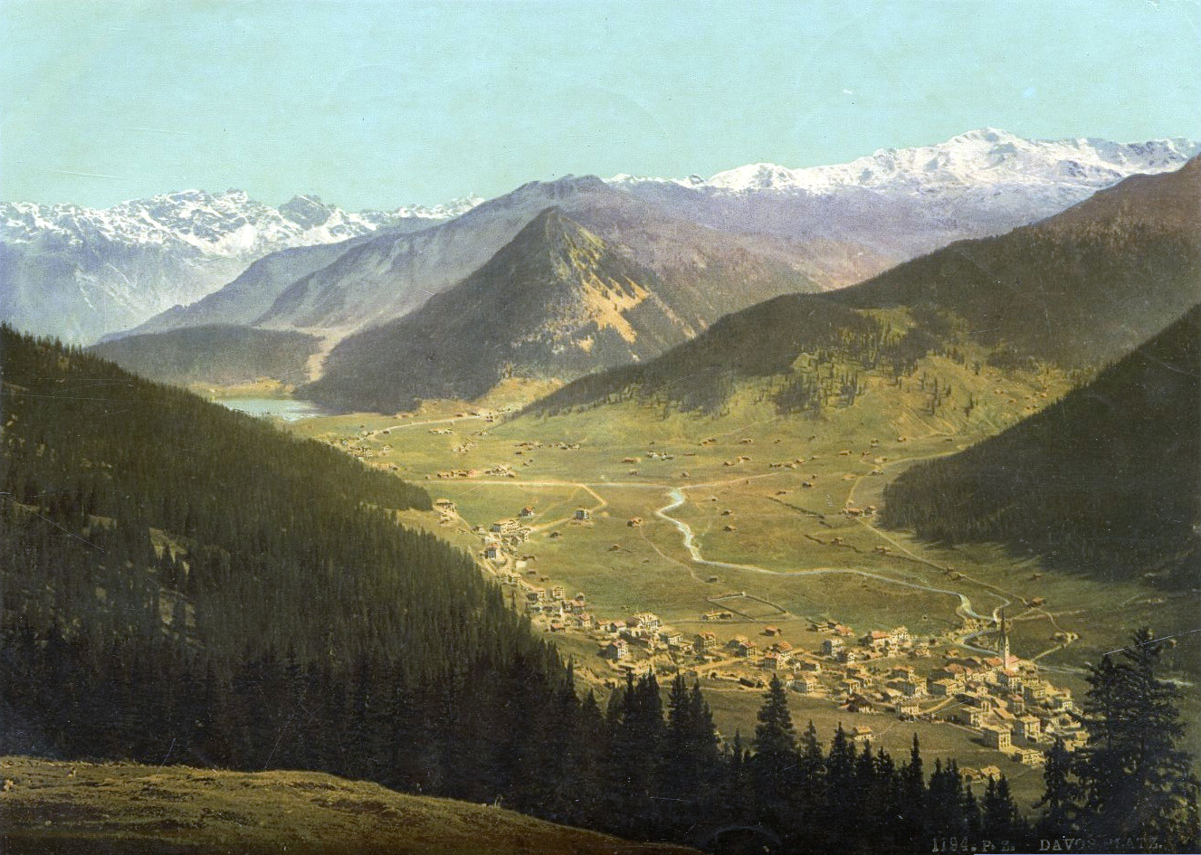 Photochrom of Davos Platz